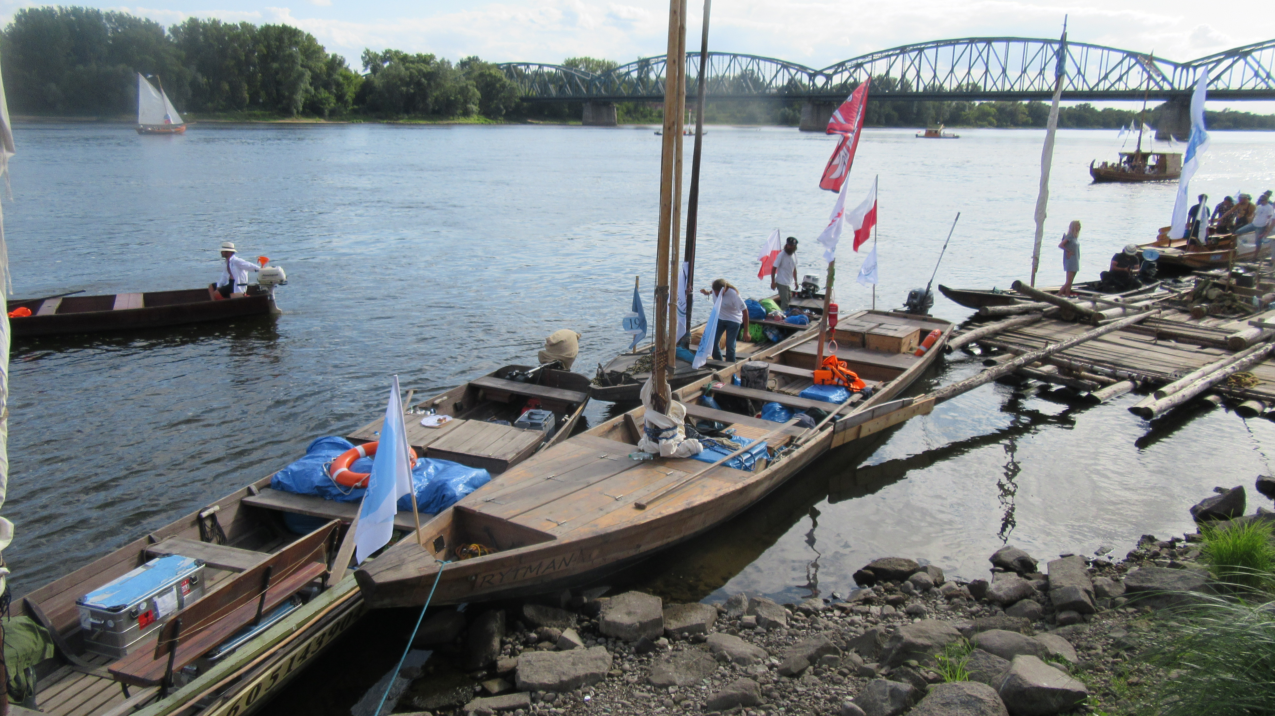 Vistula Festival in Toruń, Poland. 2017. Replicas of boats used on Vistula in XV-XIX century.